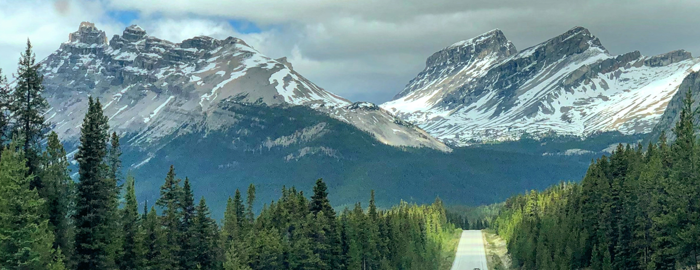 Dolomite and Watermelon Peaks